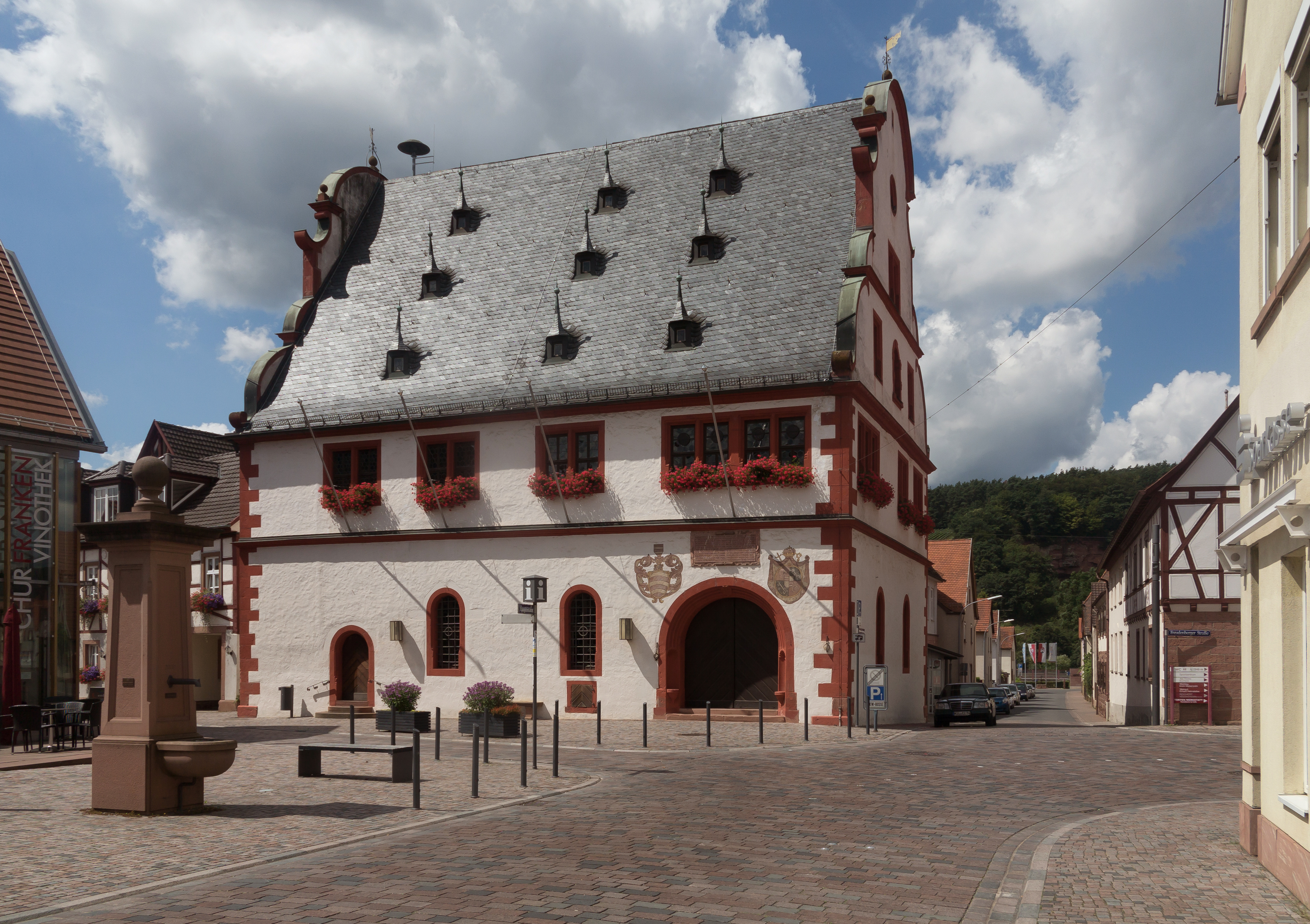 Bürgstadt, townhallThis is a photograph of an architectural monument.